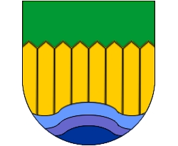 Plotišťe nad Labem sign